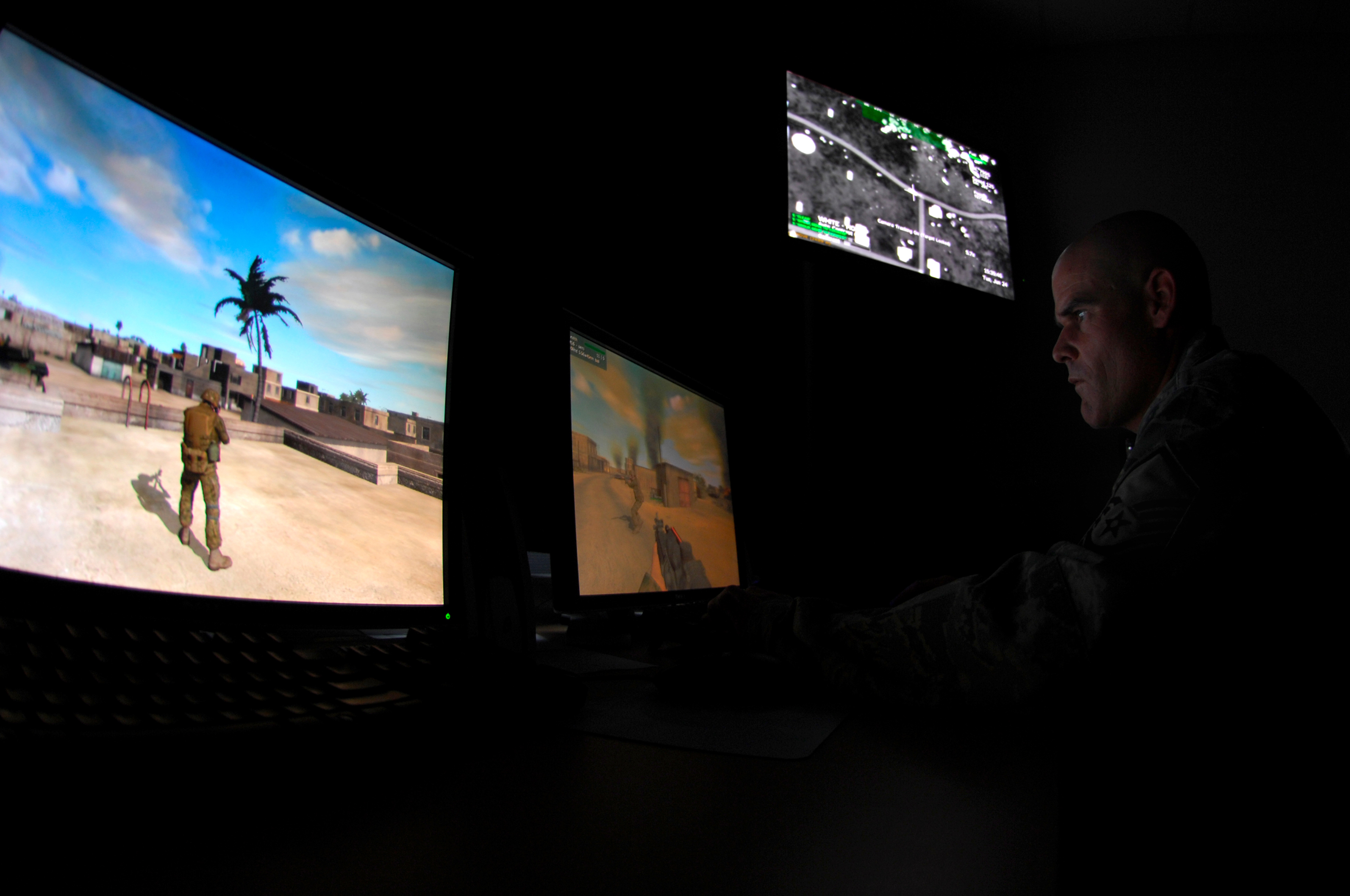 An Air Warfare Simulation Model Manager performs combat training using the Rover III Operations System at Einsiedlerhof Air Station, Germany. The technology that is used at the WPC simulates realistic air warfare situations providing military personnel and allied coalition forces the advanced combat training need to be successful in a deployed environment. (U.S. Air Force photo Airman 1st Class Kenny Holston)